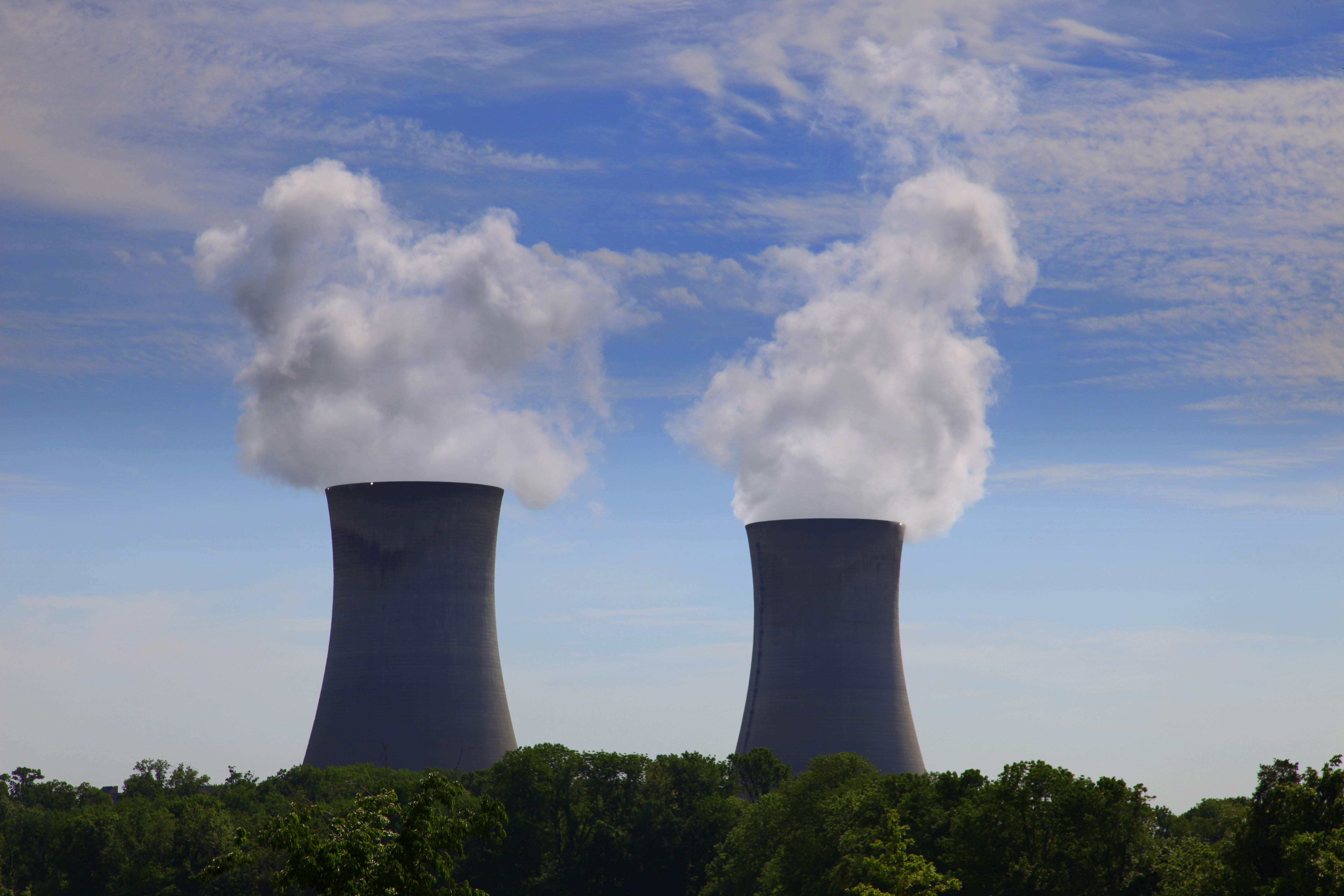 Limerick Nuclear Power Plant cooling towers from the Philadelphia Outlets